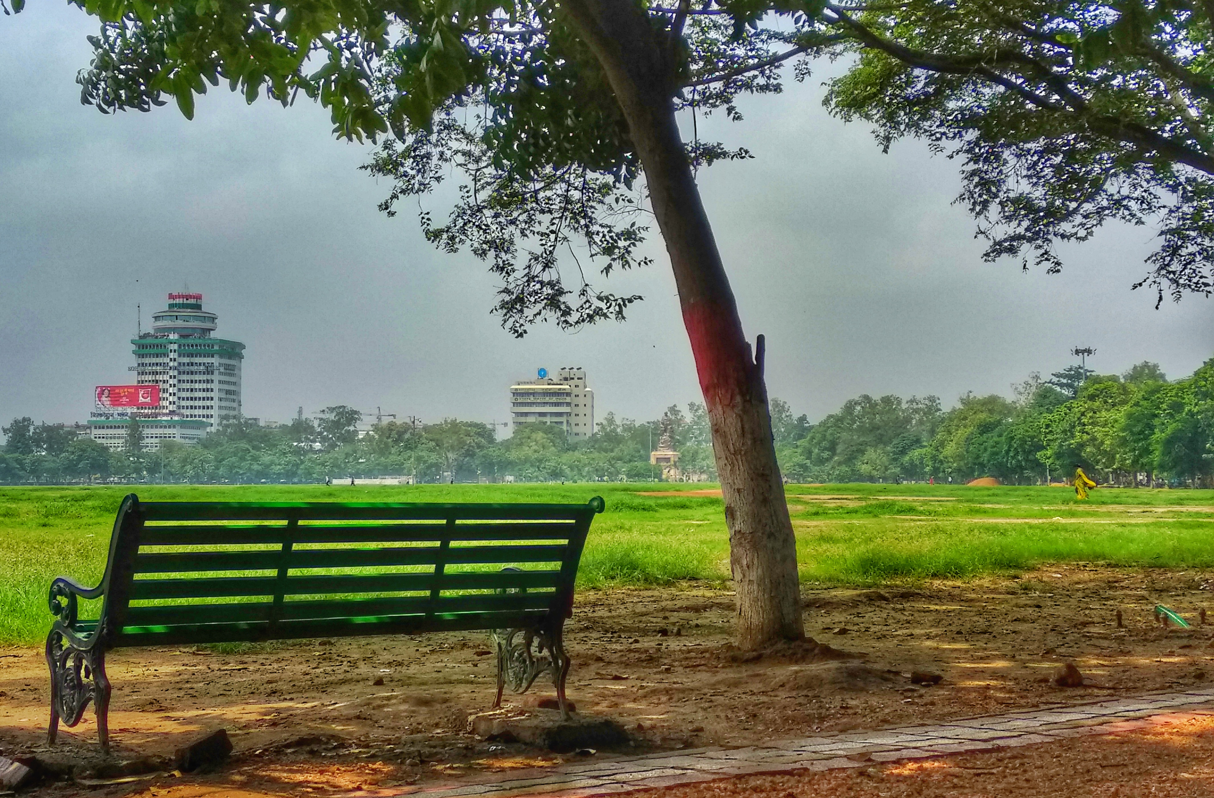 This picture is taken from Gandhi maidan from a sight where we can see the the tallest building in Patna and Bihar and sbi building which is the biggest office in Bihar together.